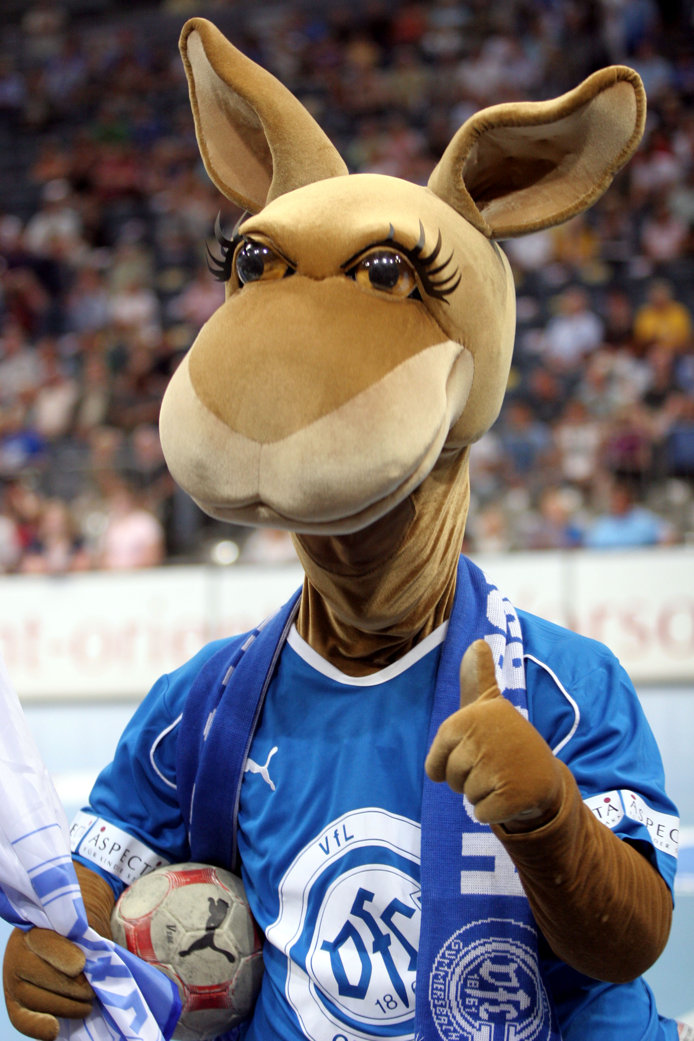 Gummi, the mascot of VfL Gummersbach. Prior the final EHF Cup game on June 1st 2009, VfL Gummersbach vers. RK Velenje in Cologne´s Lanxess arena.